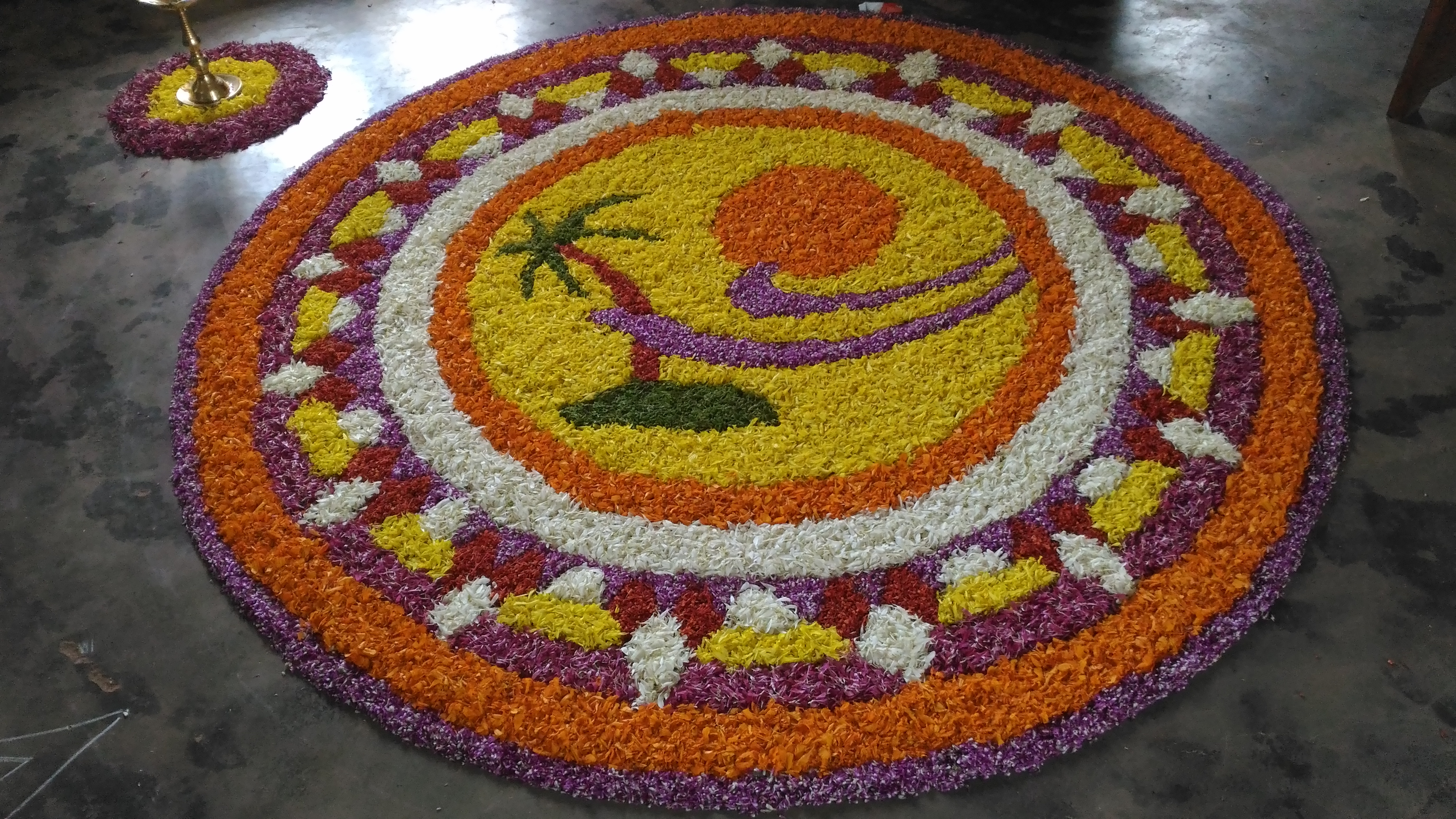 Onappookkalam using natural flowers and leaves